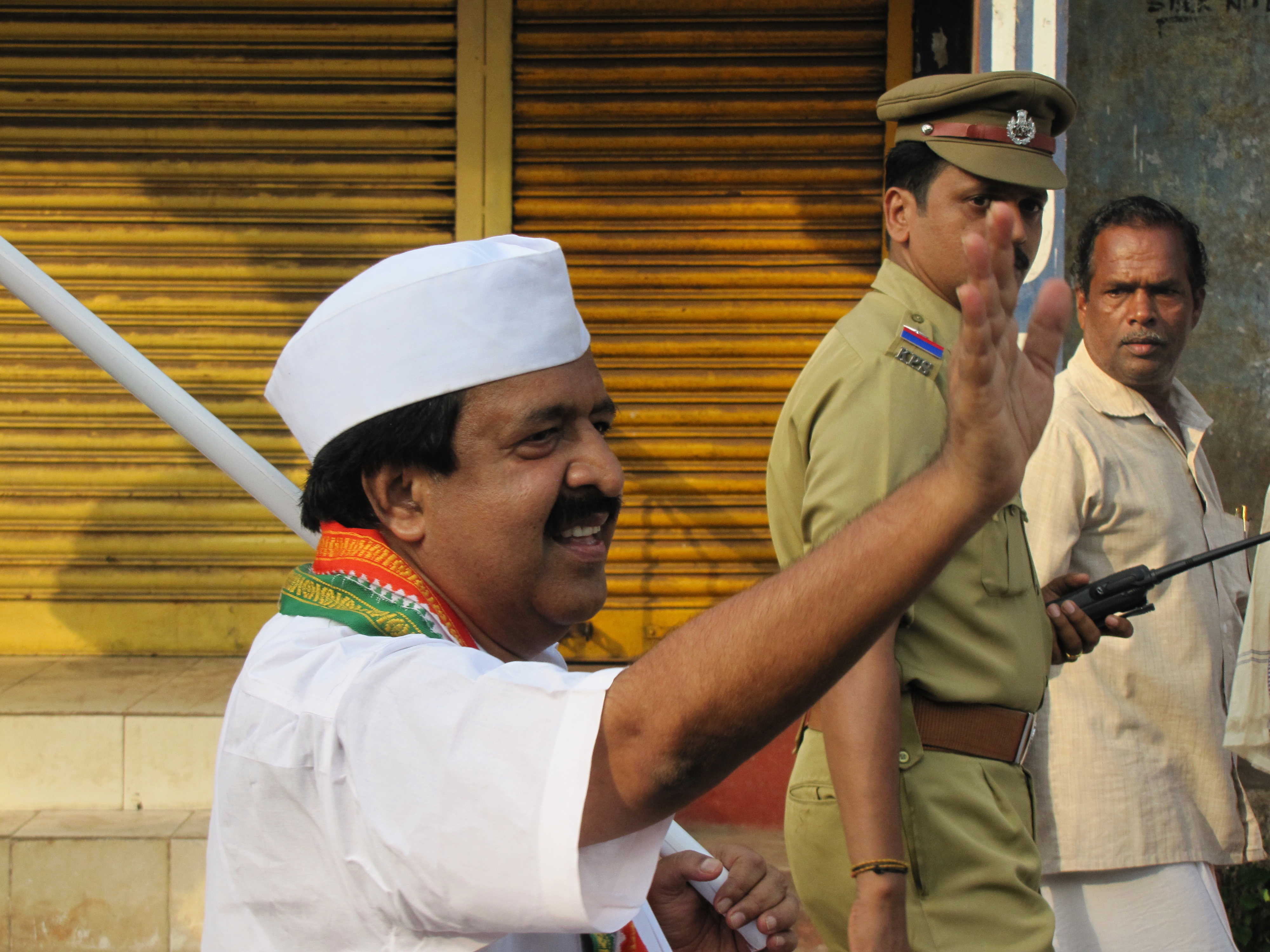 Ramesh Chennithala during a march at Kanhangad